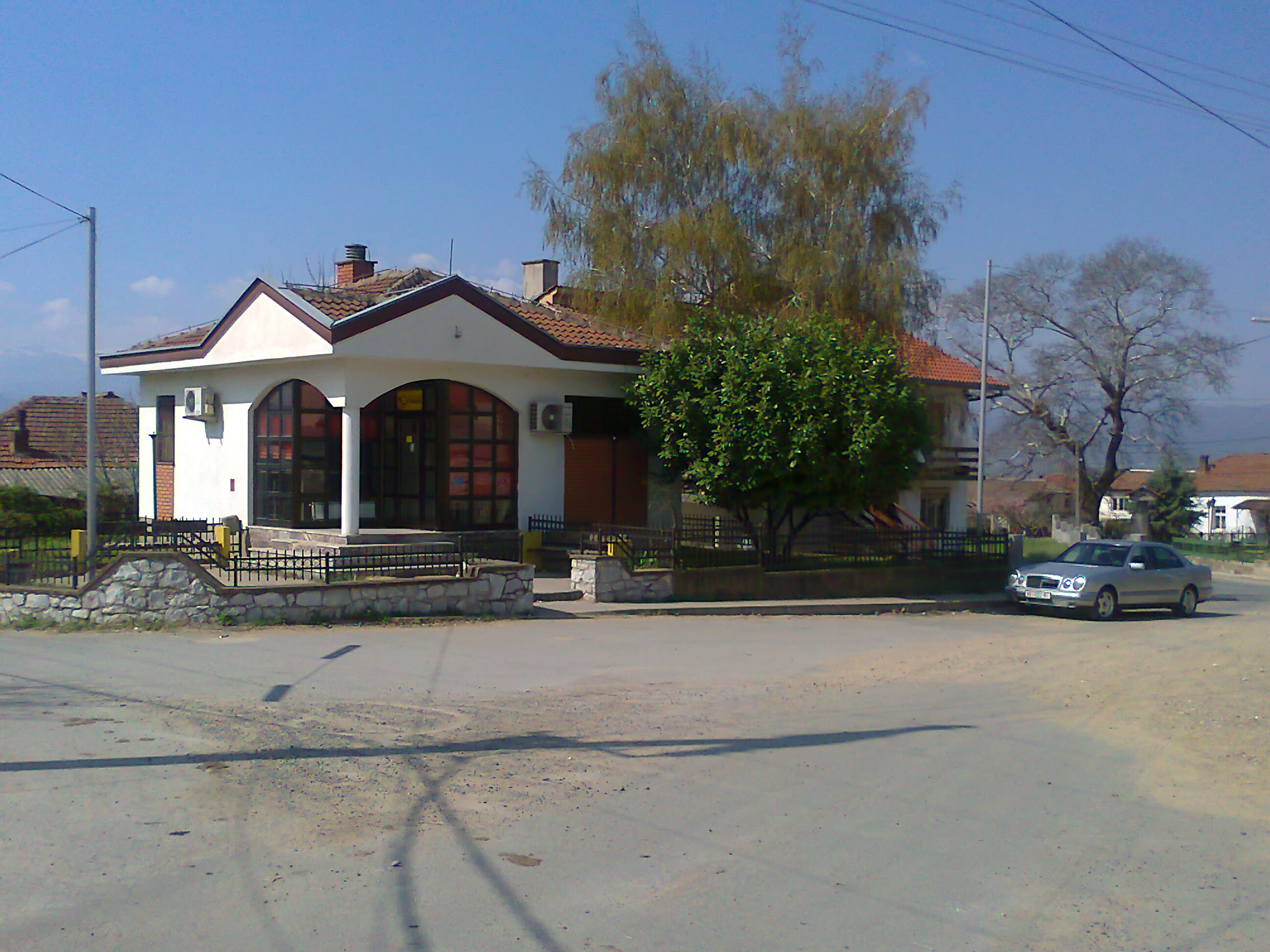 Post ofice in Pirava